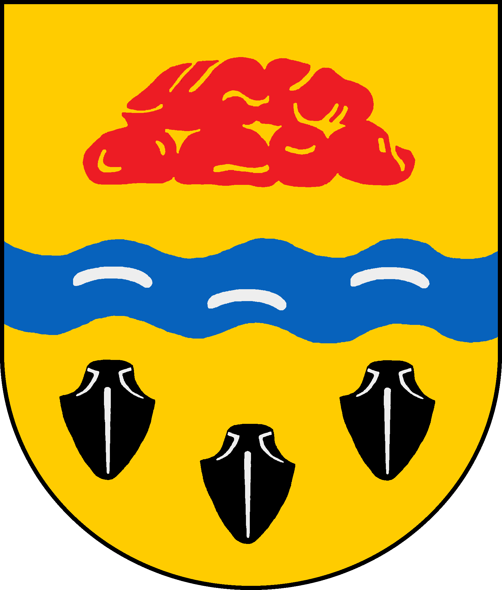 Coat of arms of the municipality Gammelby in Schleswig-Holstein, Germany.